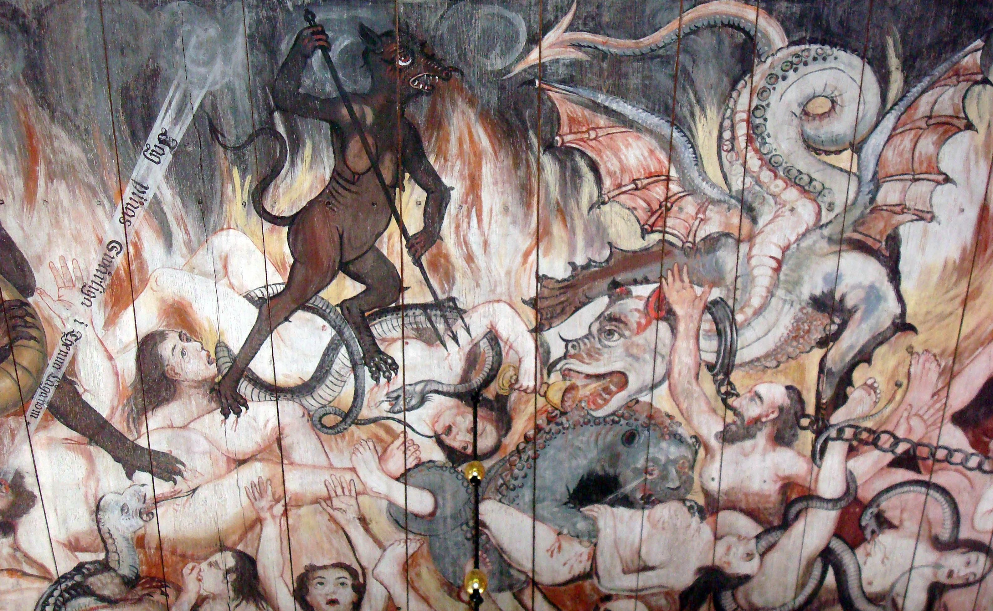 Ceiling painting in hakarp representing hell